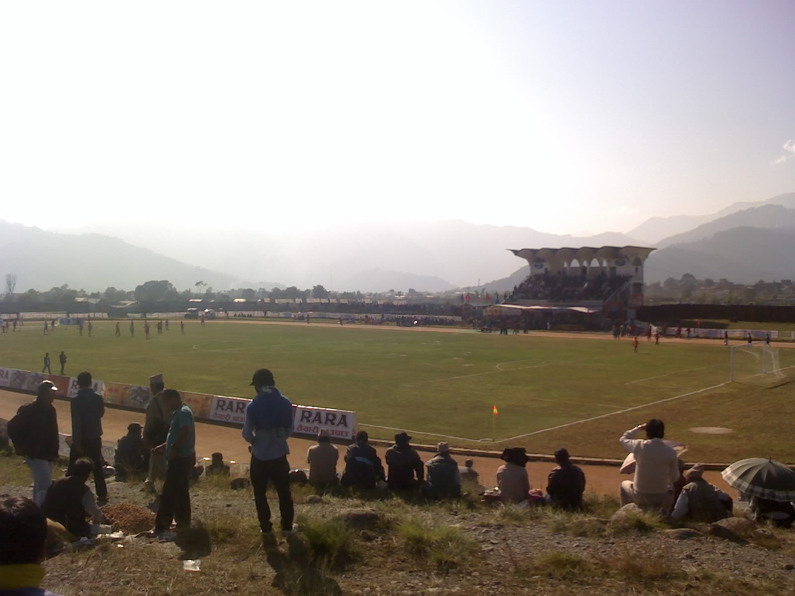 Photo of Pokhara stadium taken from north east end